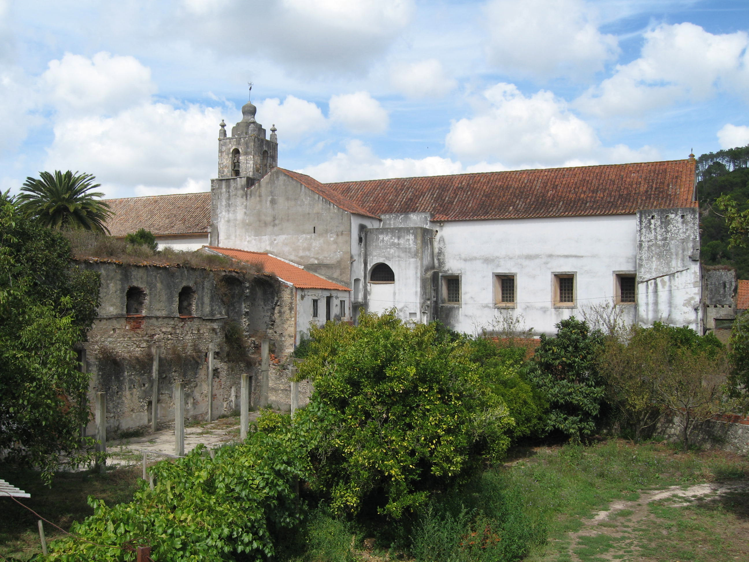 Alcobaça, Portugal, Monastery of Cós, church and ruins of dormitory, 17th century